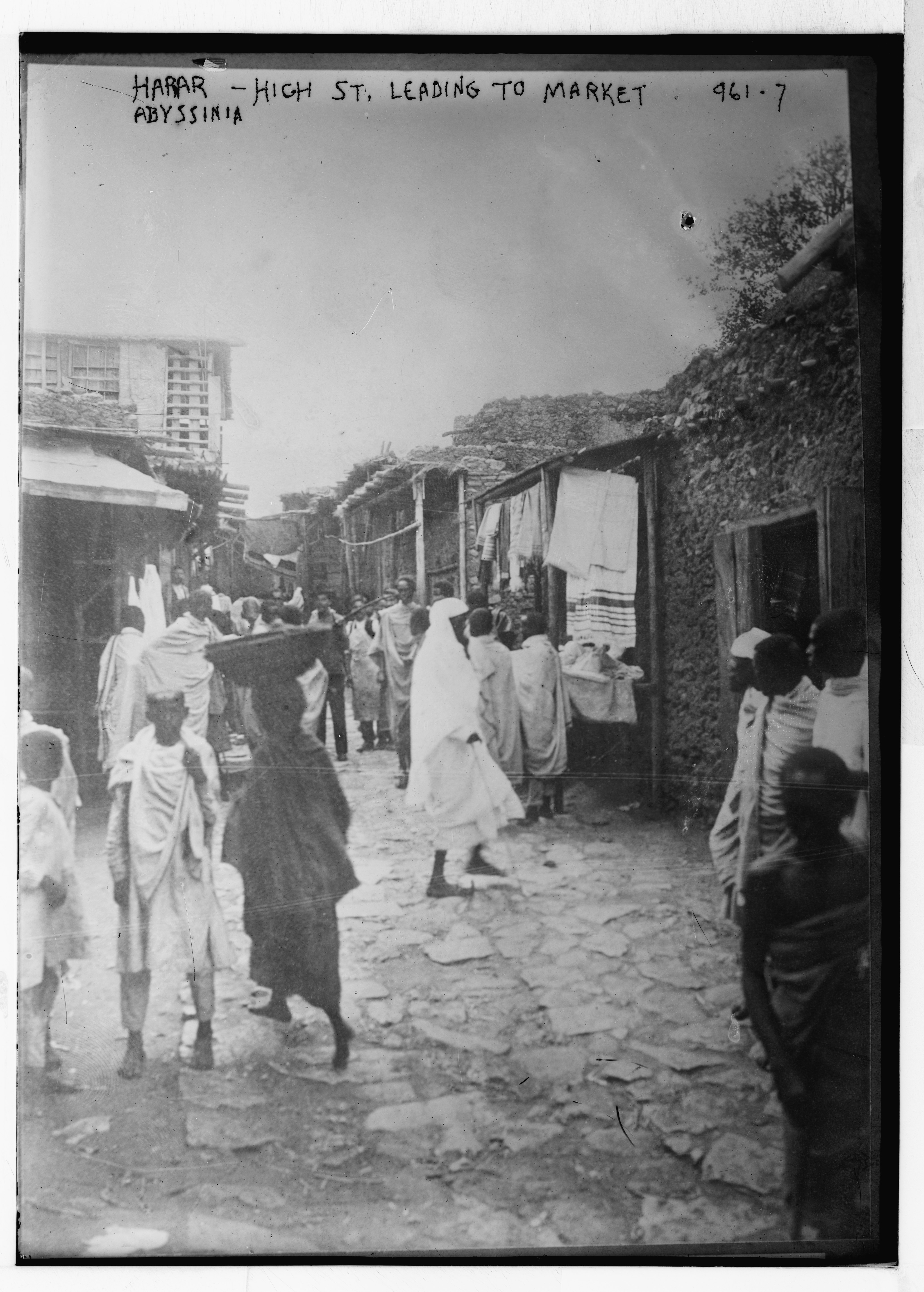 Title: Street scene: Harar-High St. leading to market, Abyssinia [Ethiopia] Abstract/medium: 1 negative : glass ; 5 x 7 in. or smaller.